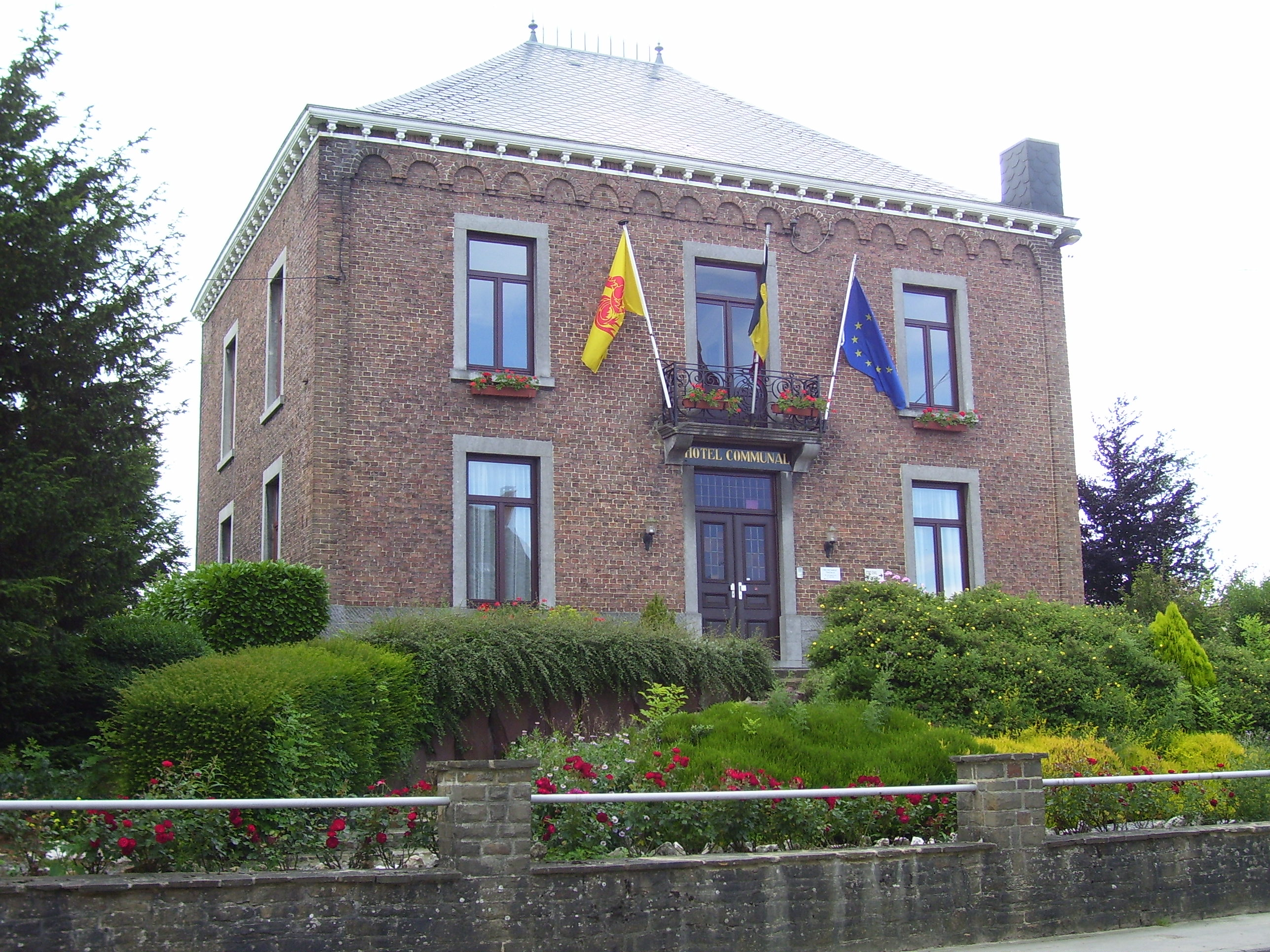 Hôtel Communale (town hall) of Havelange, Belgium